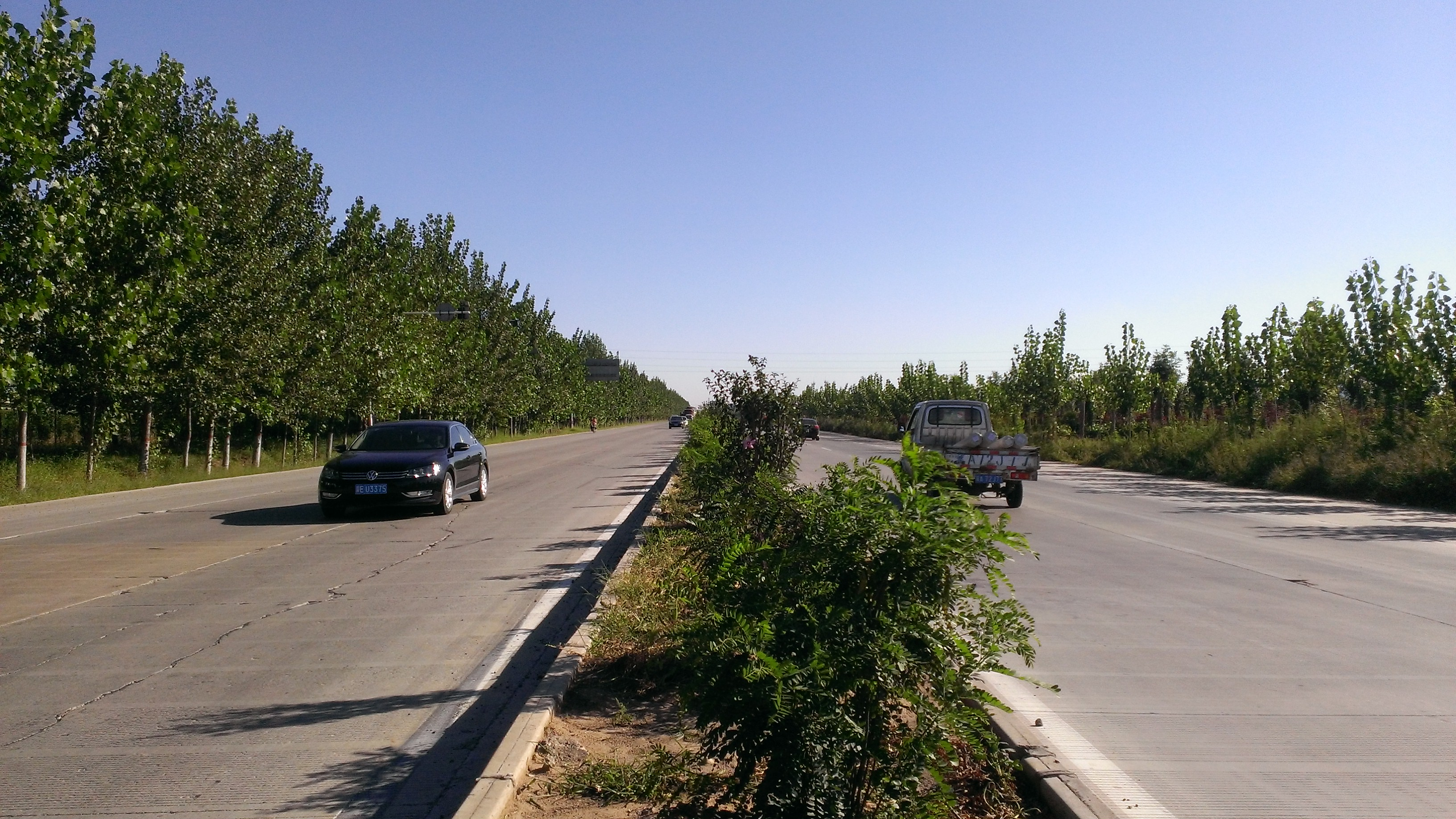 Shijiazhuang-Xingtai highway at Yuanshi county